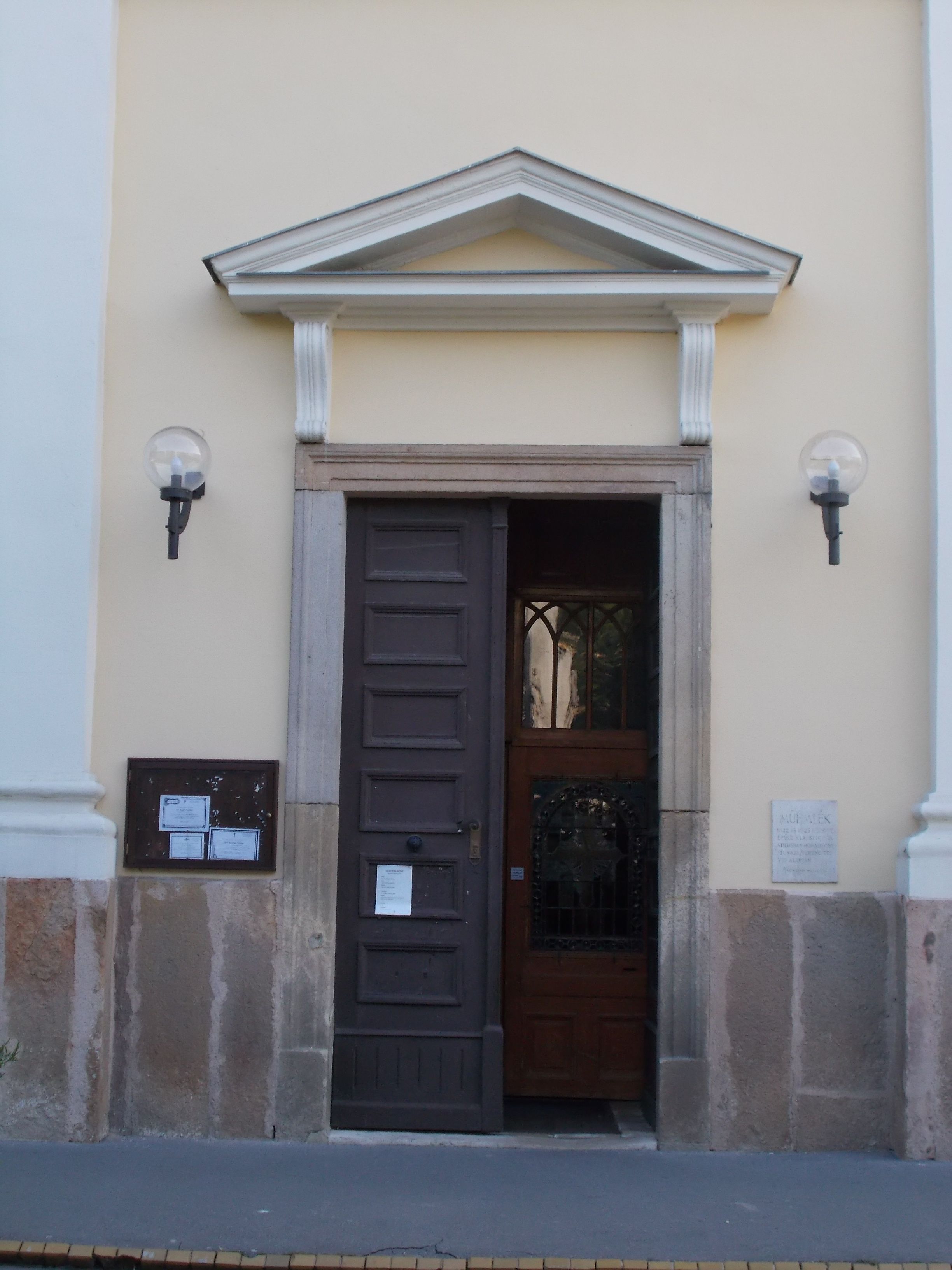 Roman Catholic parish church. Built by Ferenc Homályosi in 1822-1827. Ionic capitals on pilasters. Palladian windows. Wall painting from 18th century. Two angel satue on the altar made by Lőrinc Dunaiszky. - Kossuth Sq., Cegléd, Pest County, Hungary